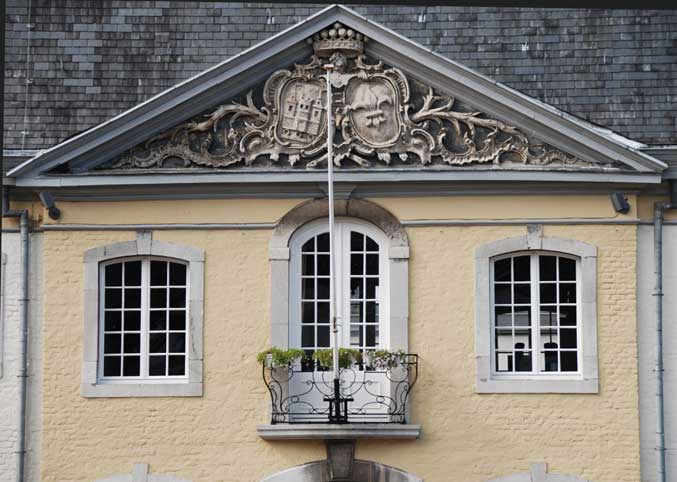 Vaals, Vols, von Clermonthouse